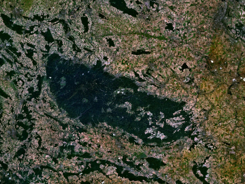 Satellite picture from World Wind